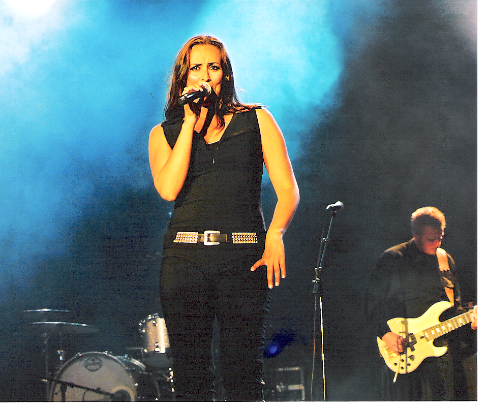 The Danish-Greenlandic songstress Julie Berthelsen performing a concert in the Tivoli Garden in Copenhagen, Denmark, 15th June 2007.